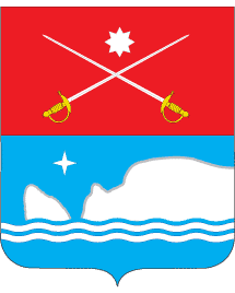 Coat of Arms of Symeiz